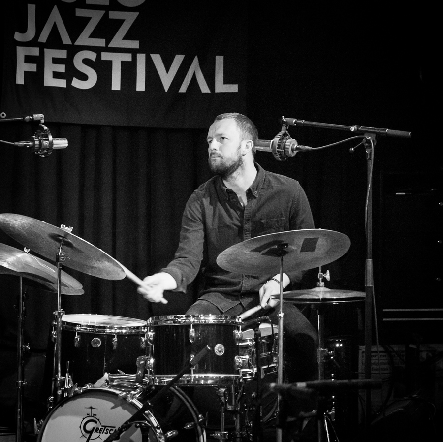 Gard Nilssen and Gard Nilssen’s Acoustic Unity at the stage of Herr Nilsen. The concert was part of the Oslo Jazz Festival in Norway and took place on 18. August 2016. Lineup: Gard Nilssen (drums) Petter Eldh (double bass) André Roligheten (saxophone) Jørgen Mathisen (saxophone) Kristoffer Berre Alberts (saxophone)